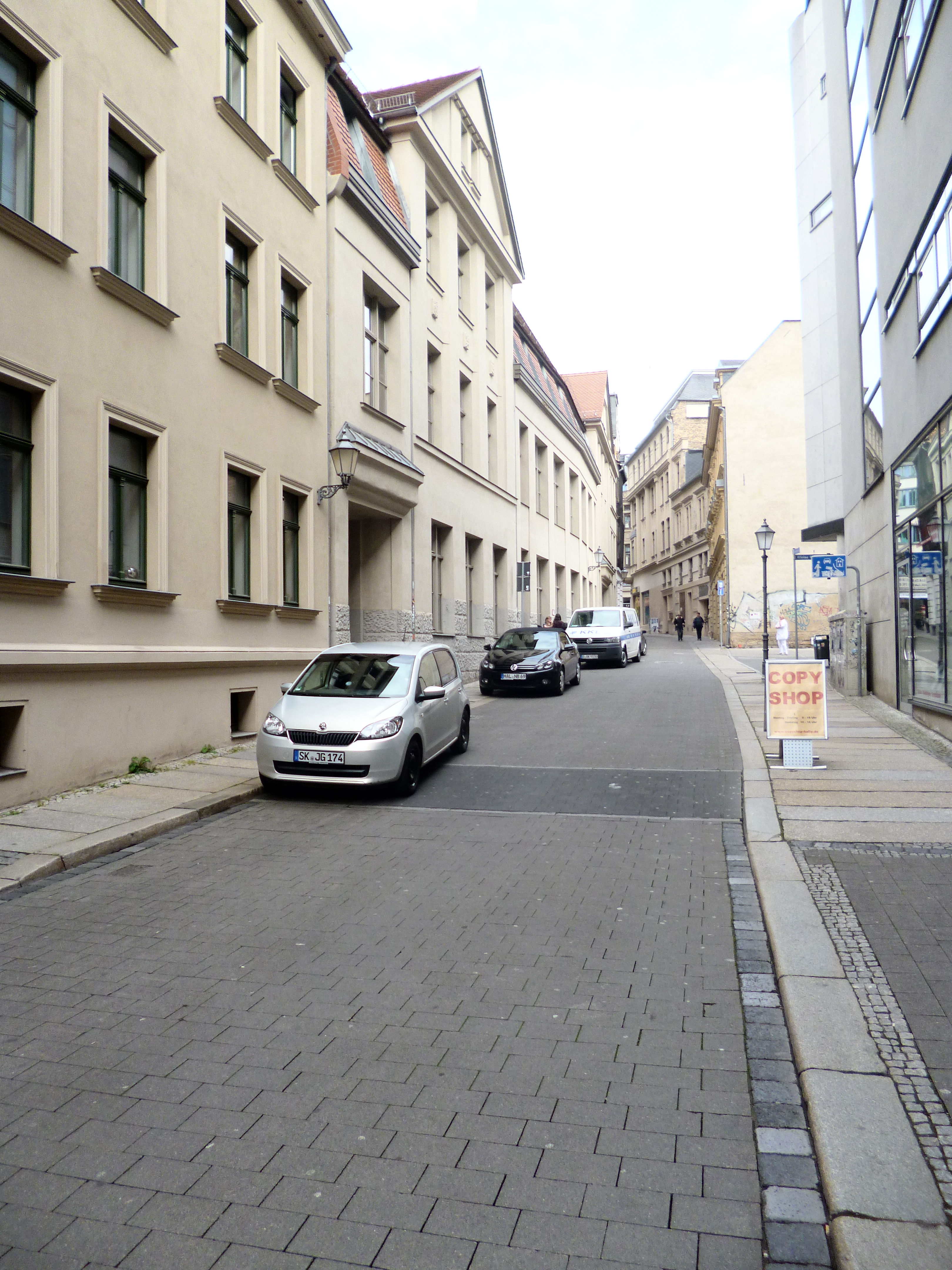 Dachritzstrasse in Halle (Saale)